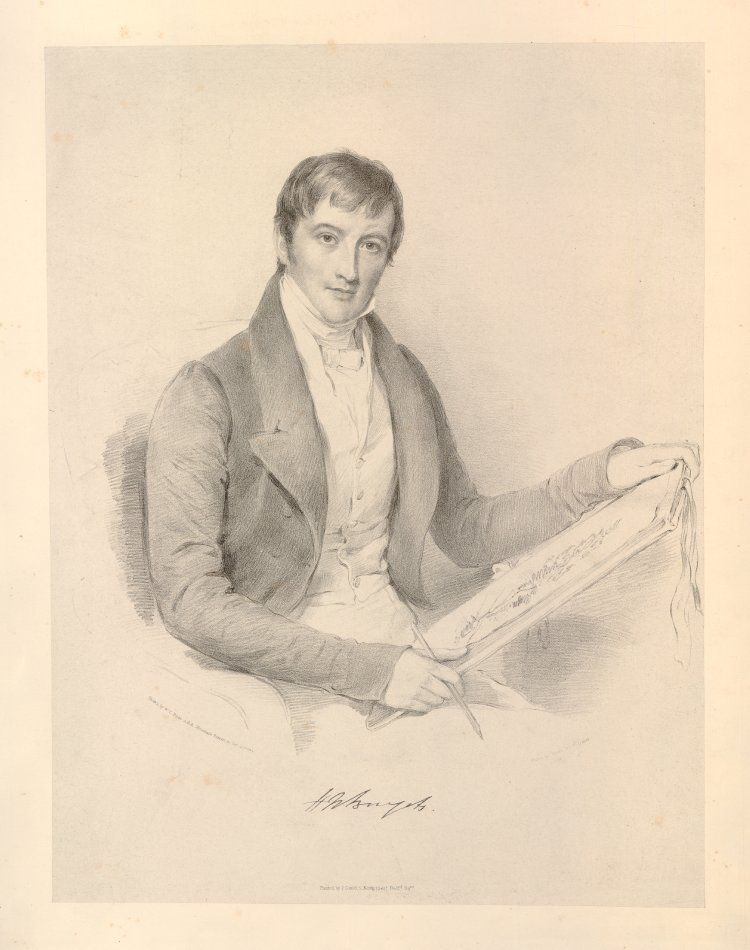 Portrait of Henry William Burgess as a young man; three quarter length; seated to right in armchair; holding portfolio and pencil; wearing open jacket with light waistcoat and necktie; after William Charles Ross; vignette; with facsimile of signature. Lithograph on chine collé.